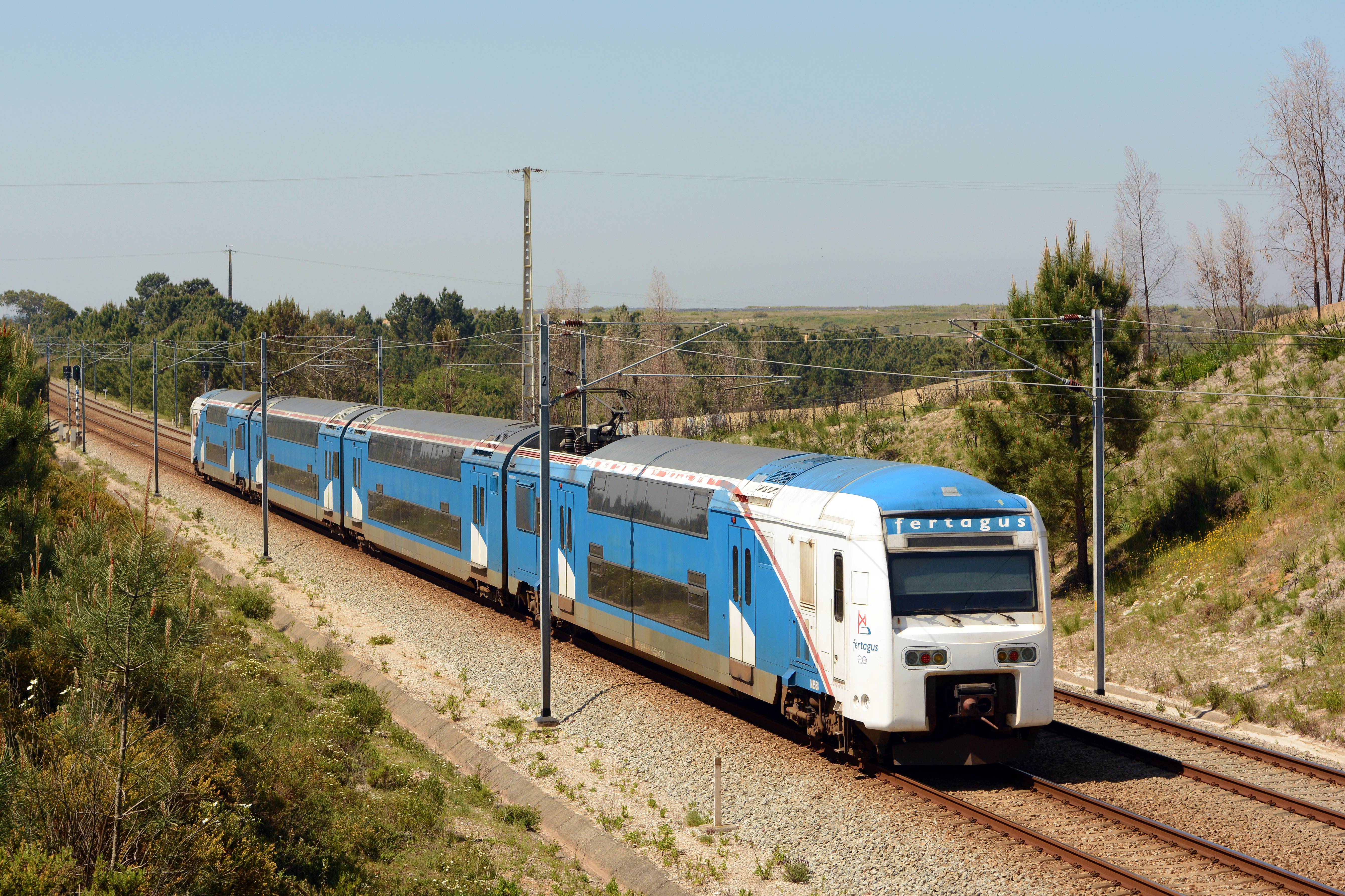 Fertagus suburban train (train type 3500) on Linha do Sul railway line close to Pinhal Novo, Portugal